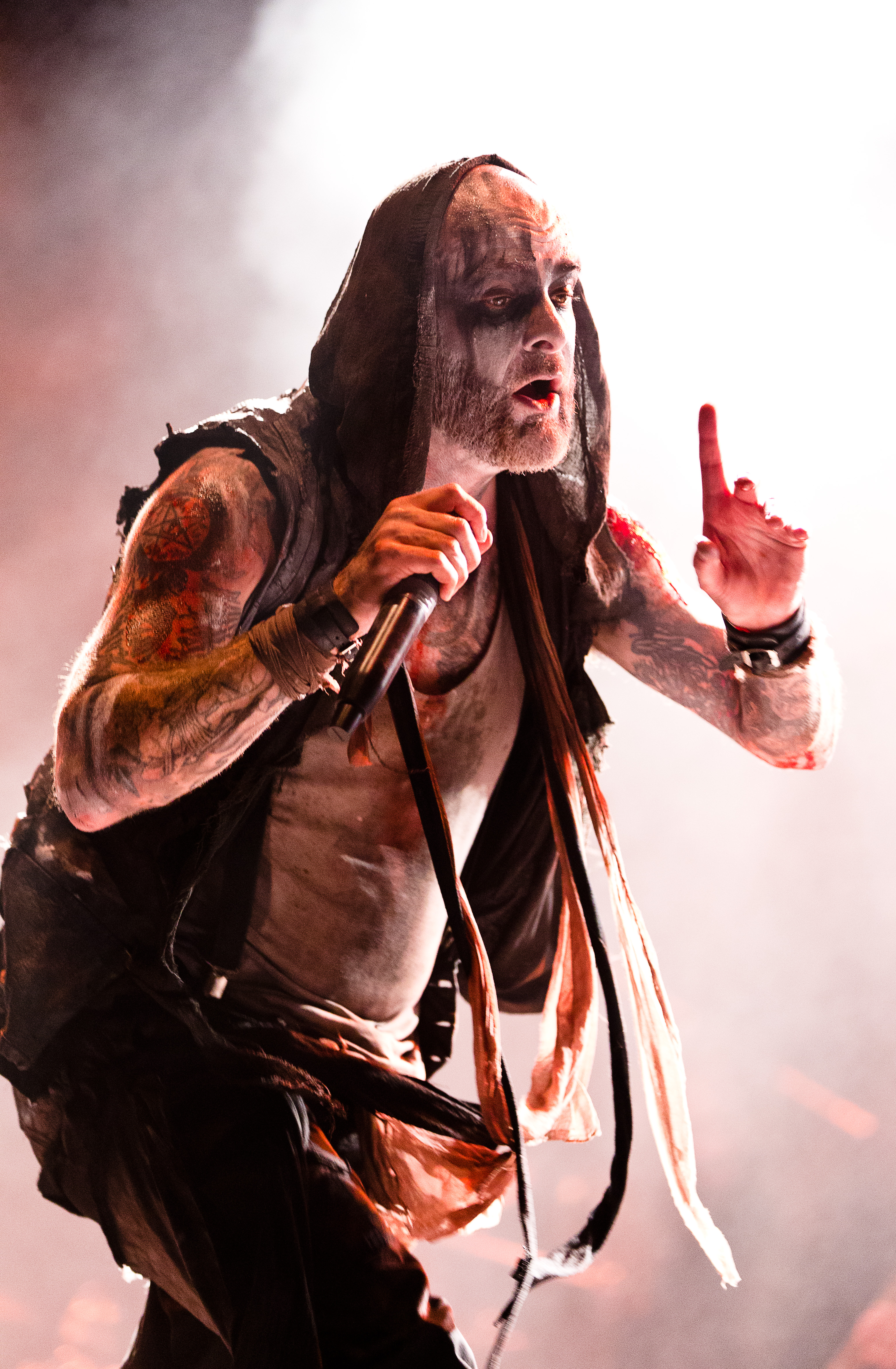 The Irish pagan metal band Primordial at the Party.San Open Air 2015 in Obermehler-Schlotheim/Germany.